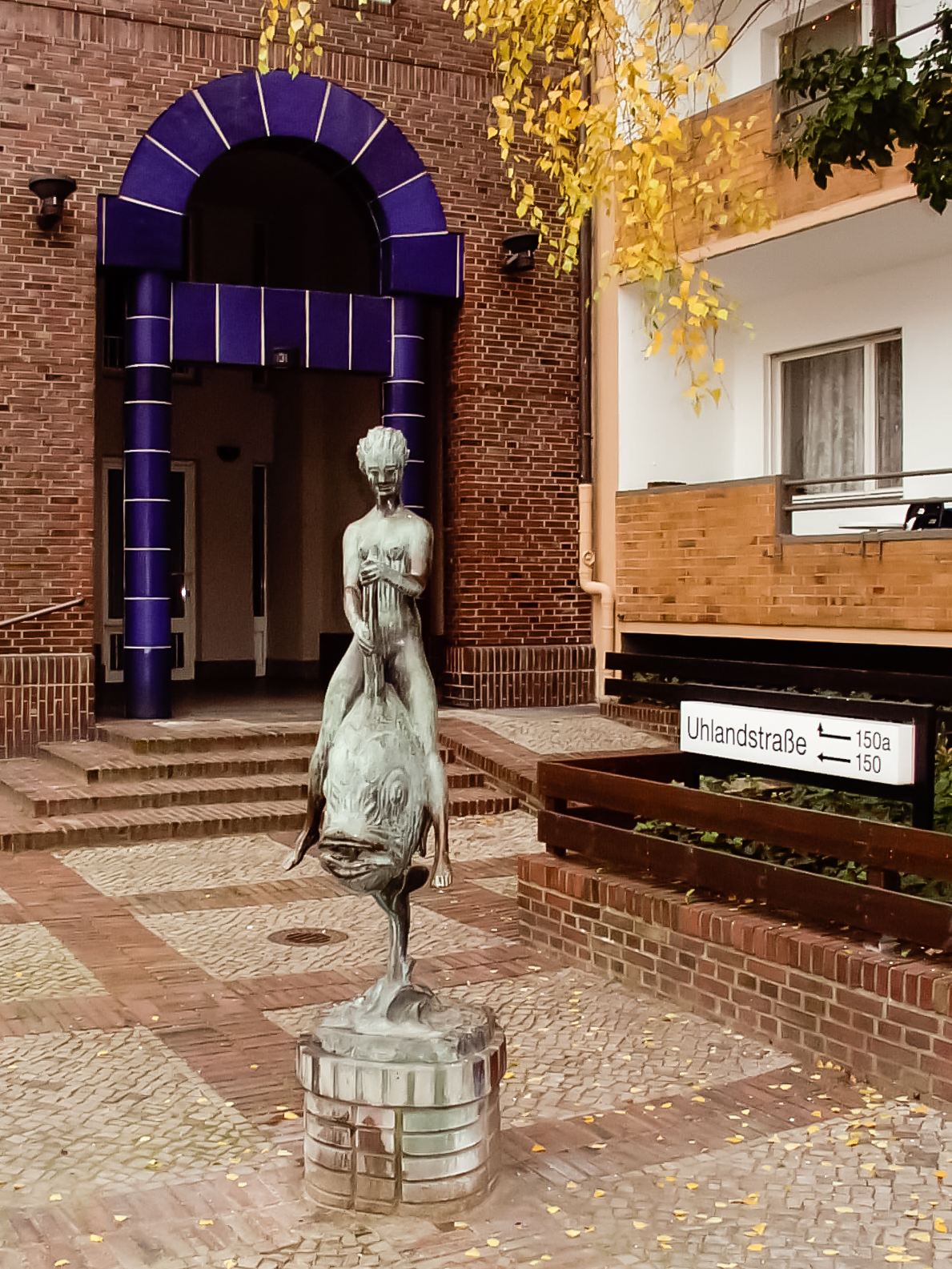 Fischreiterin by Georges Morin, 1929 in Berlin's Uhlandstraße 150